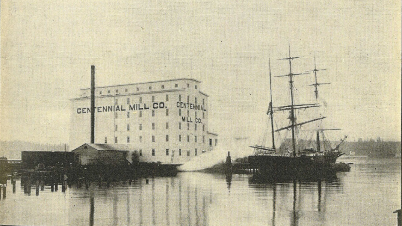 Page 67 of brochure Seattle and the Orient (1900). This page includes text plus a photo captioned "The plant of Centennial Mill Co., Seattle." The Centennial Mill was a flour mill on the tide flats at the base of Beacon Hill. A tall ship is visible in right foreground. The mill can be seen from Beacon Hill near the left of File:Seattle tideflats, circa 1898.jpg